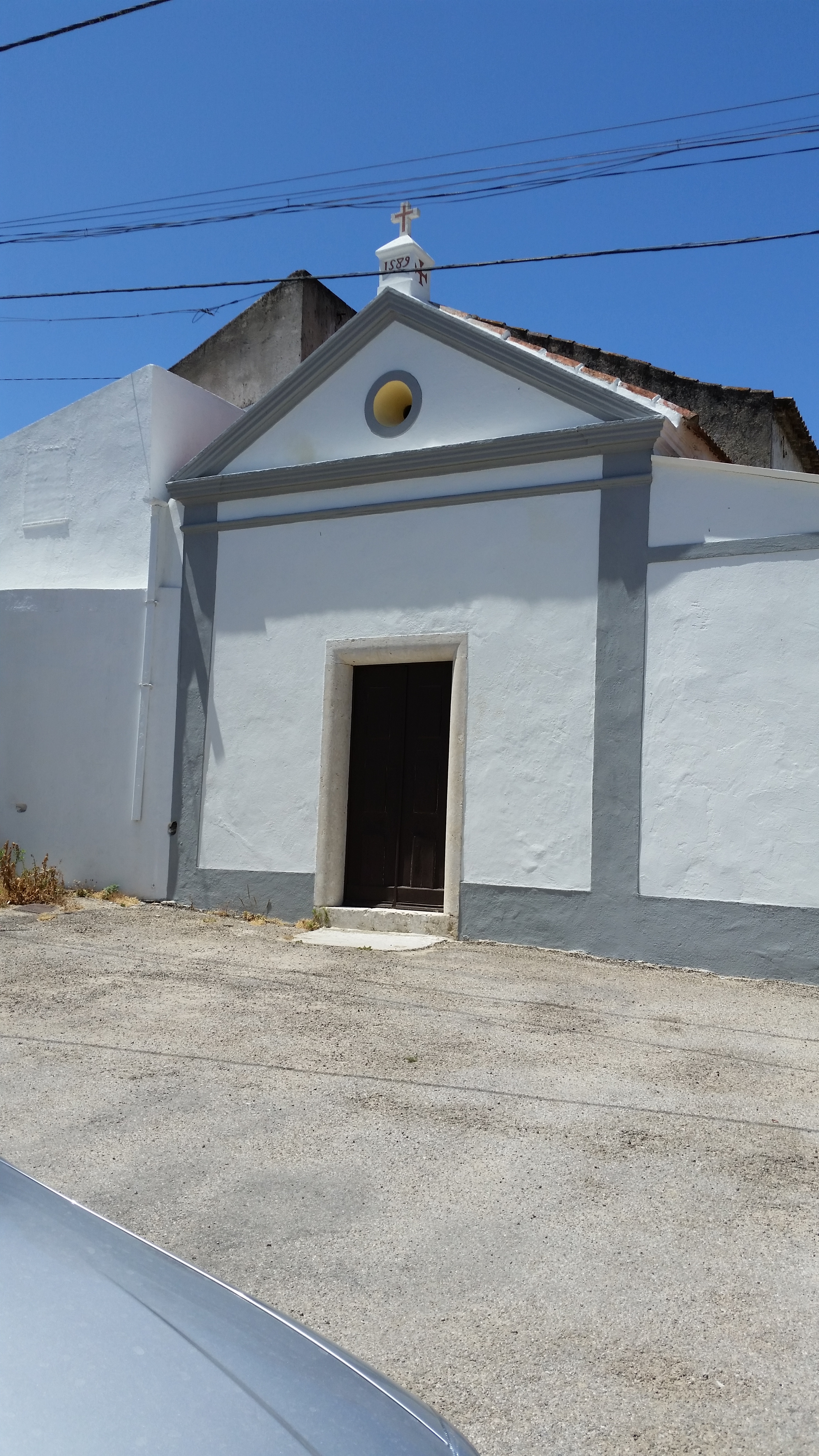 Chapel in Alcaniça